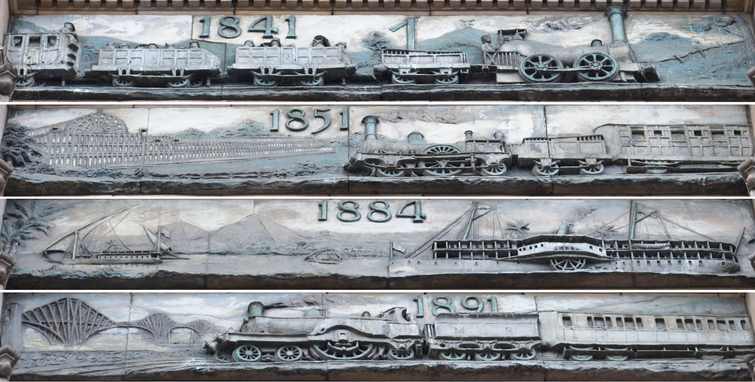 Composite image of the four friezes on the front of the Thomas Cook Building in Leicester, England. The panels depict excursions offered by the travel company; the building is Grade II listed[1]